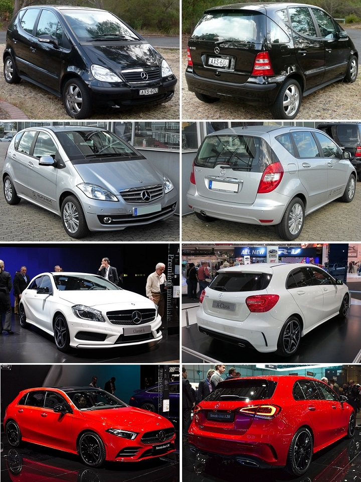 The four series (W168, W169, W176 and W177) of the Mercedes-Benz A-Class compared.